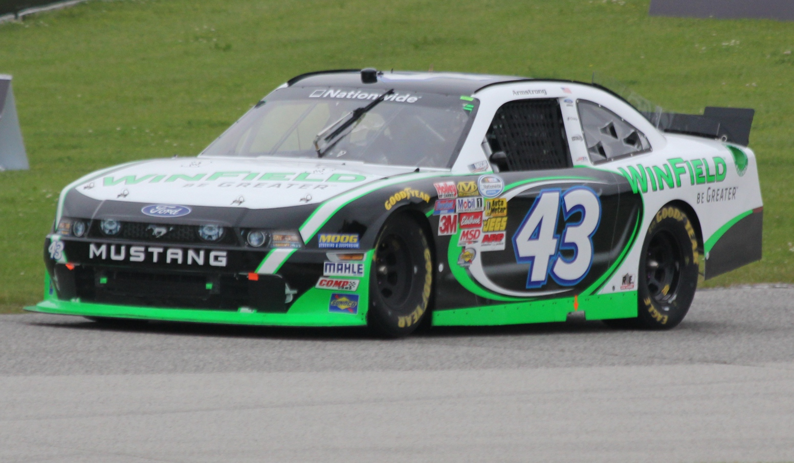 The drivers side of Dakoda Armstrong Nationwide car during the 2014 Gardner Denver 200 at Road America. Taken racing up the hill between turns 5 and 6.